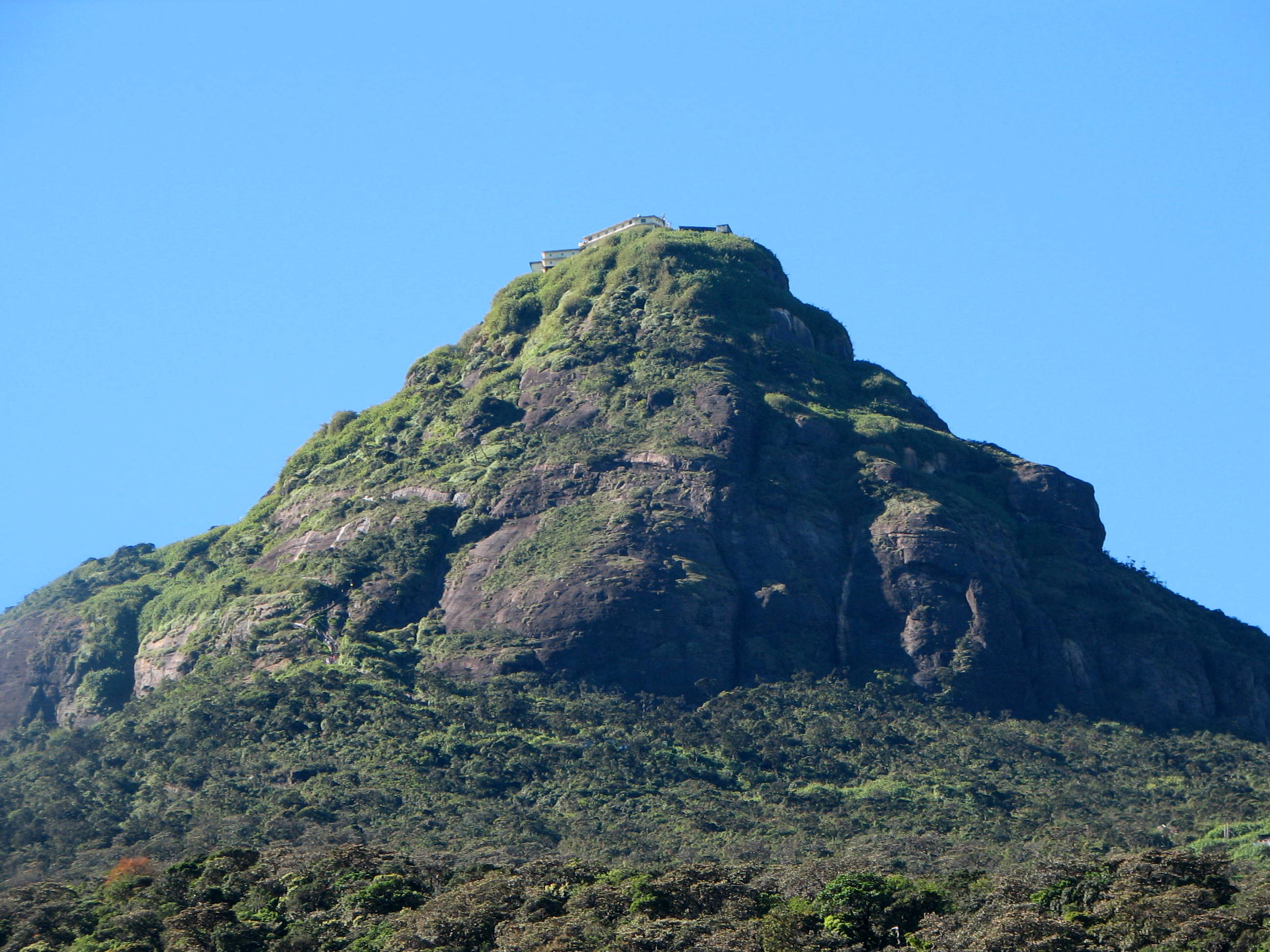 Sri Pada mountain (Adam's Peak), Sri Lanka